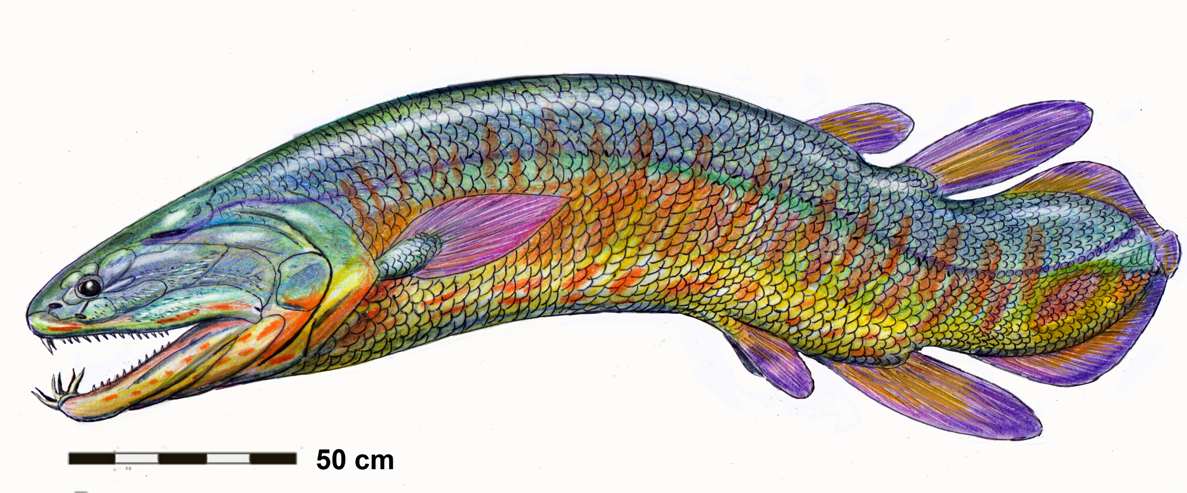 Onychodus, primitive sarcopterygian from Middle Devonian